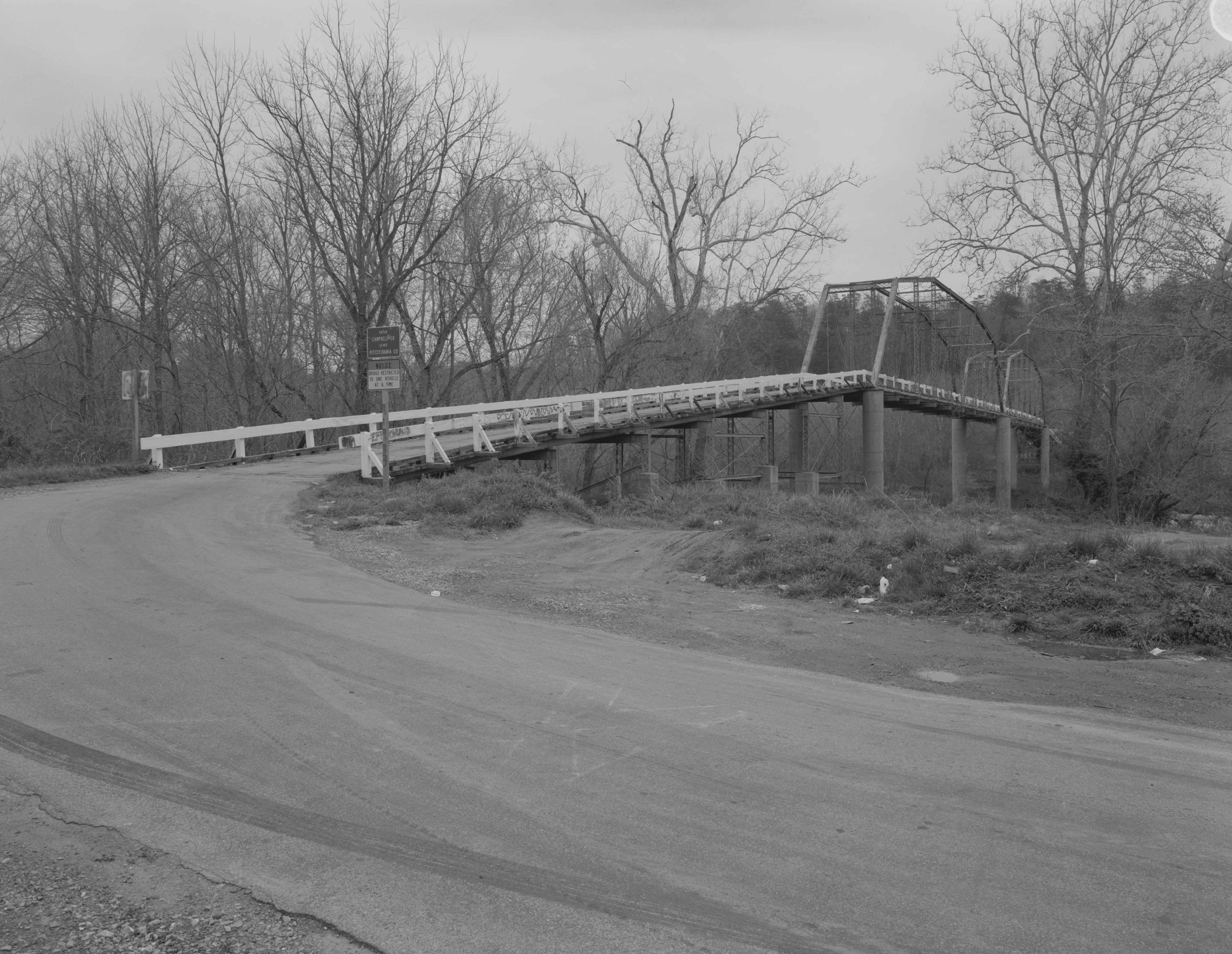 GENERAL VIEW IN CONTEXT, LOOKING NORTHEAST - Mansion Truss Bridge, Spanning Staunton River at State Route 640, Altavista, Campbell County, VA